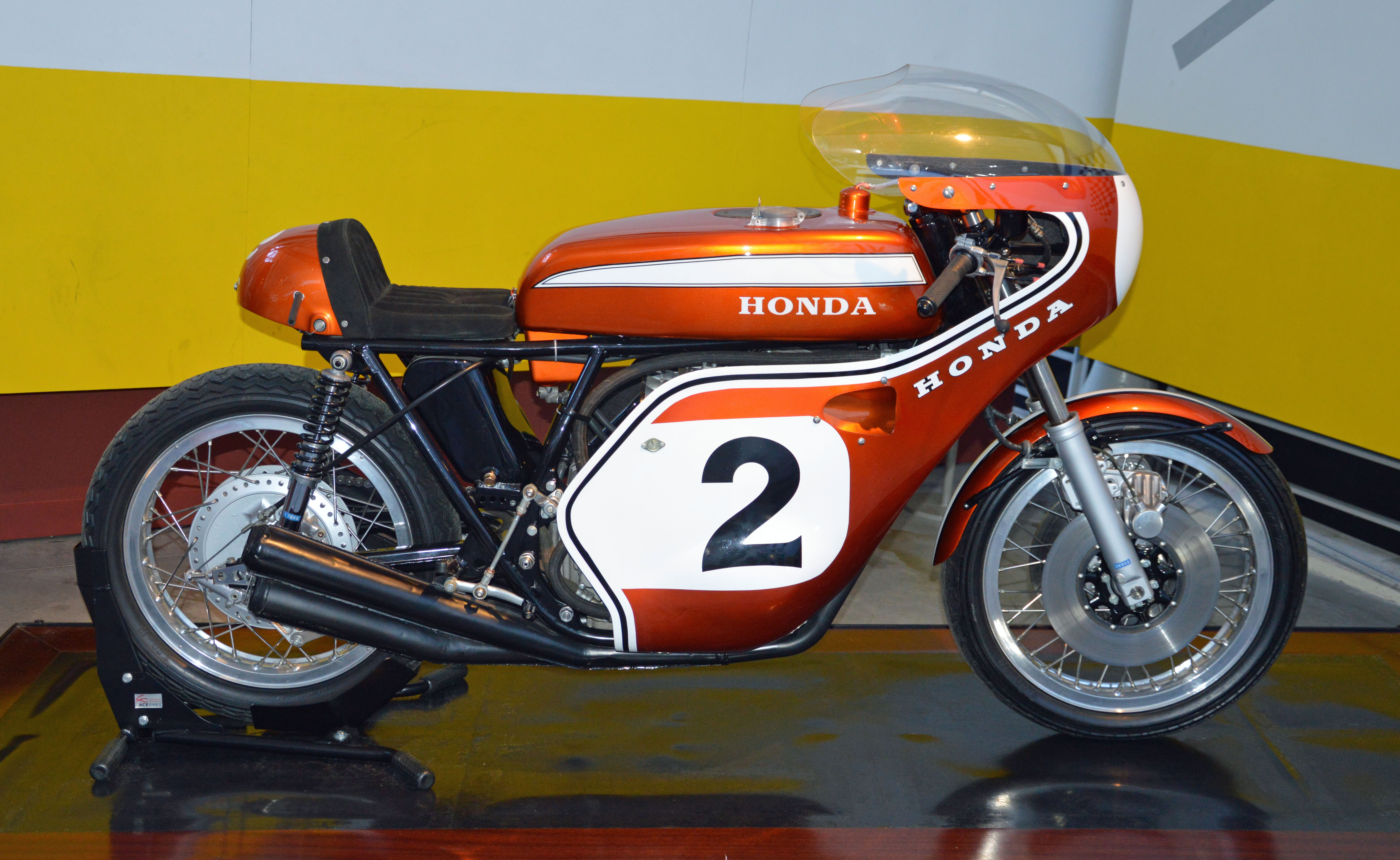 Honda CR750, one of four factory-prepared racers for the 1970 Daytona 200 race in America, based on the then-new CB750 roadster. This bike, ridden to victory by Dick Mann, is on display at Le Musée Auto Moto Vélo, a trasport Museum in Châtellerault, France.